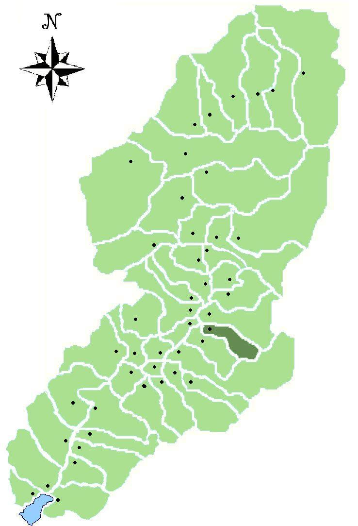 Map of the Comune di Braone, Valle Camonica